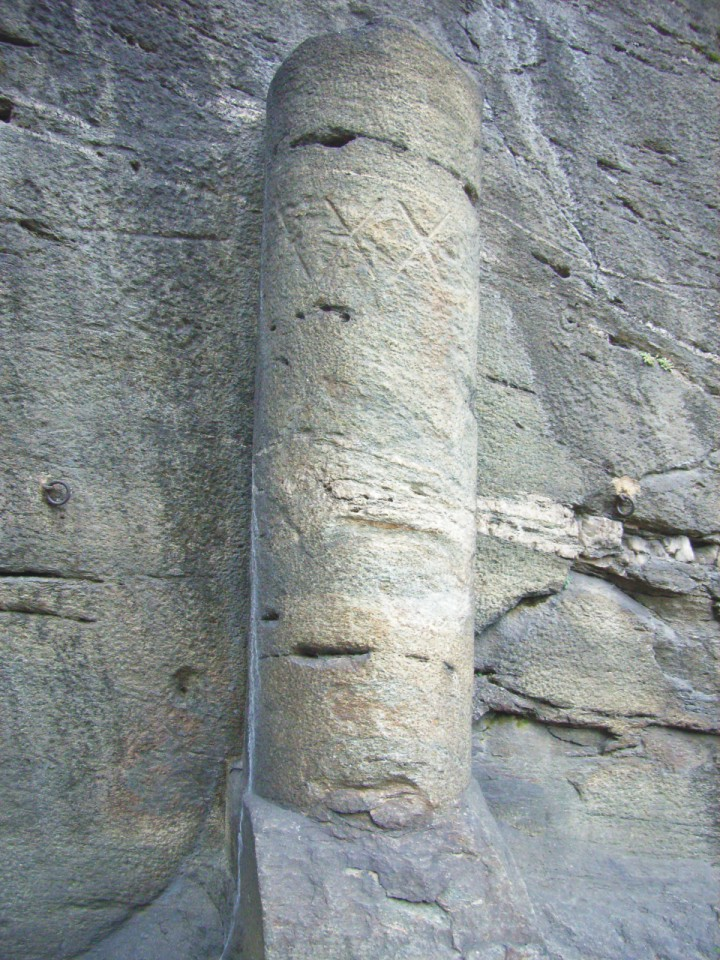 Donnas, Roman distance column with guard stone (Aoste region, Italy)